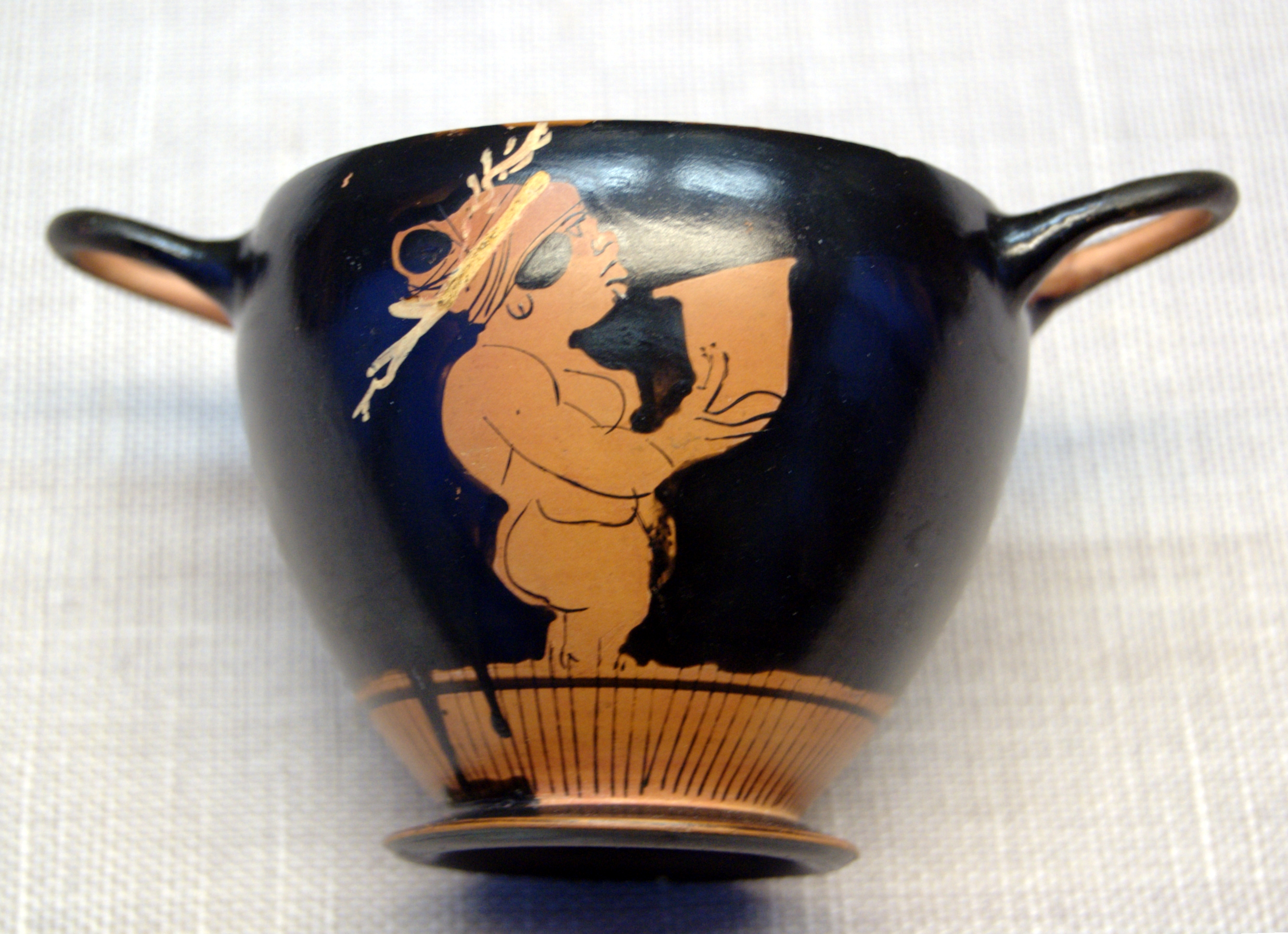 Grotesque scene: old naked woman, wearing a festive cap and carrying a big skyphos to a phallic sanctuary (side B). Side A of an Attic red-figure skyphos, 430–420 BC.